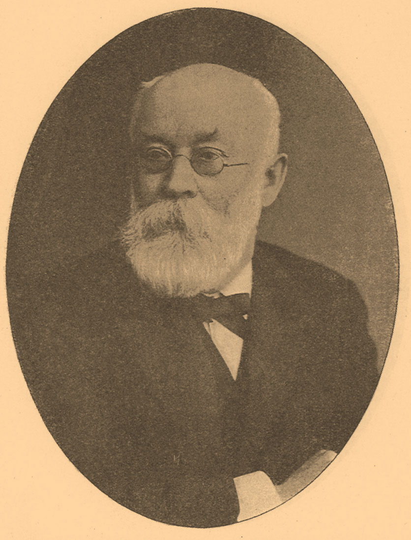 Illustration from Brockhaus and Efron Encyclopedic Dictionary (1890—1907)